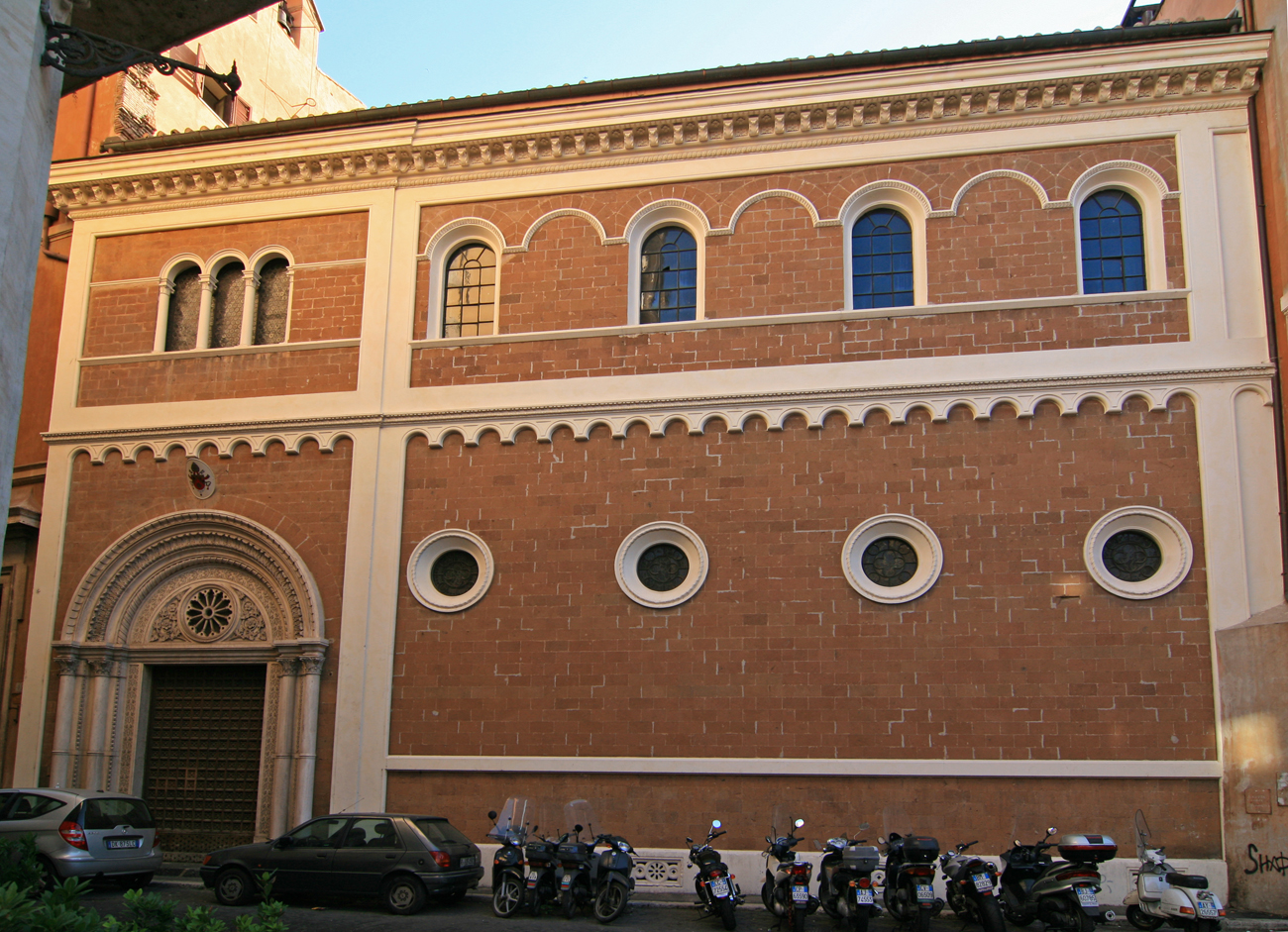 Church of San Tommaso di Canterbury, Rome.